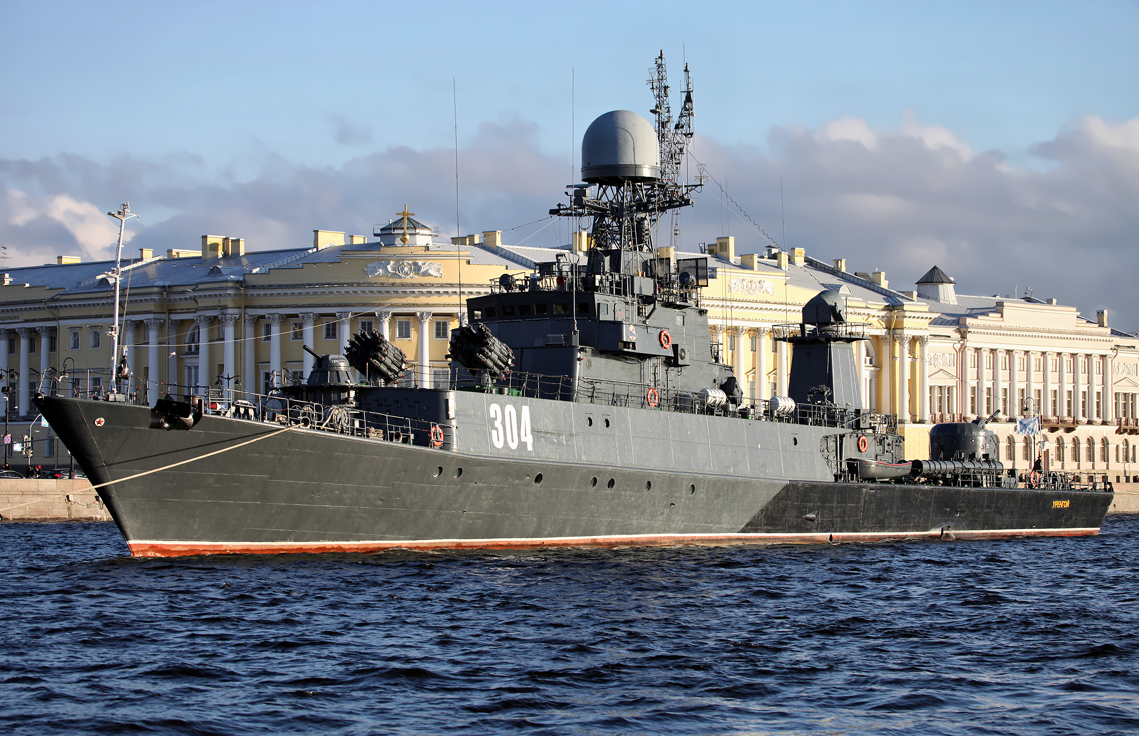 Project 1331M anti-submarine ship Urengoy